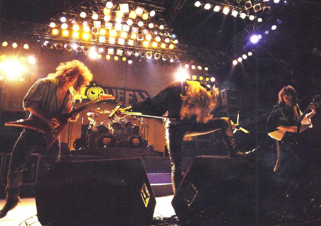 Helloween live